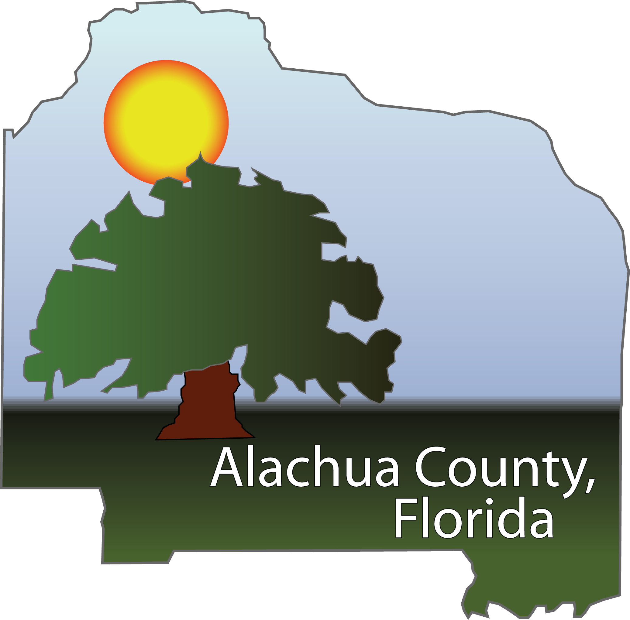 The official seal of Alachua County, Florida.